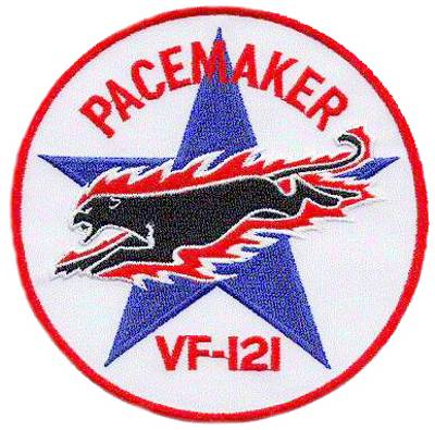 VF-121 insignia.